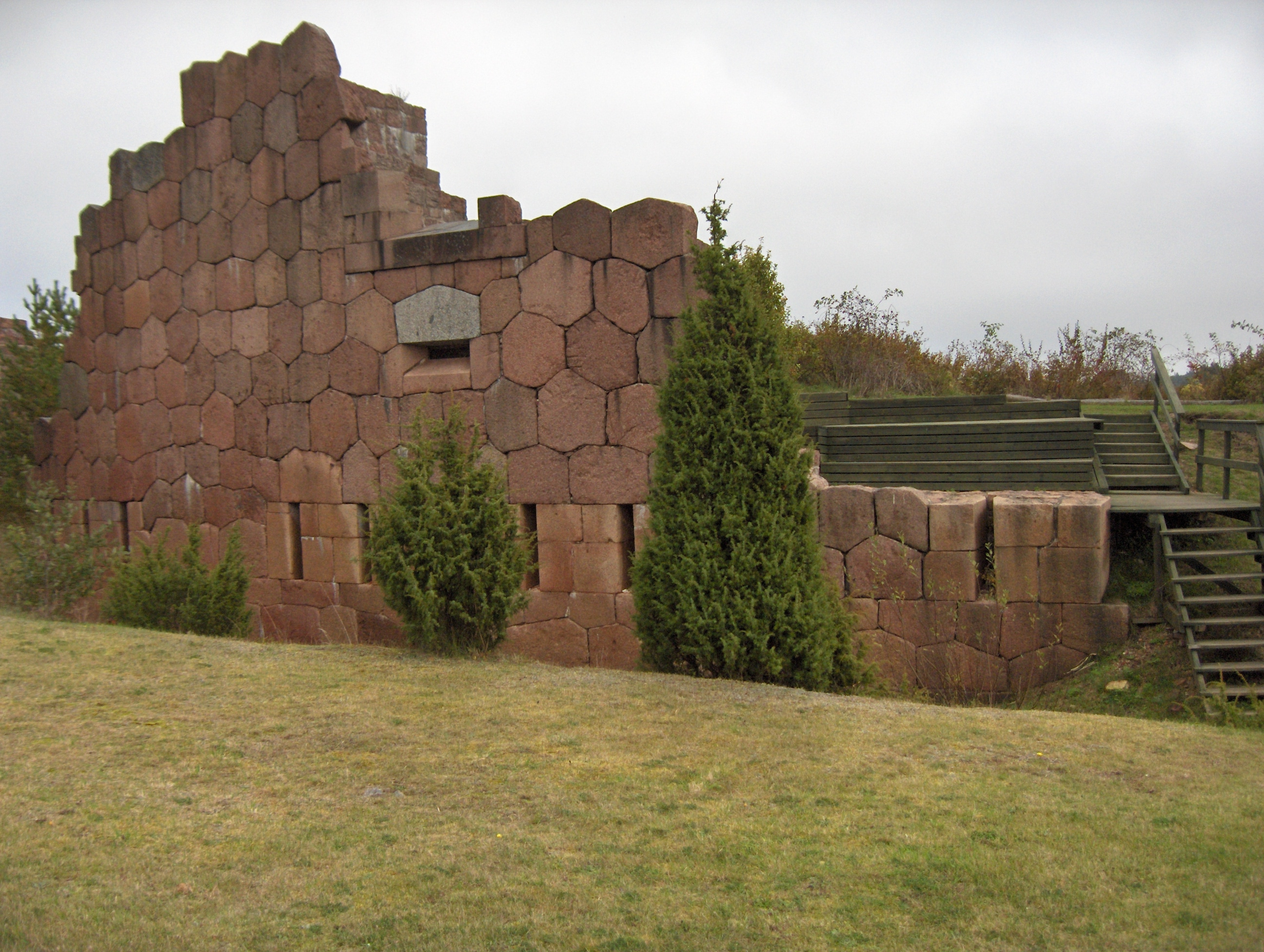 Bomarsund fortress in Åland.